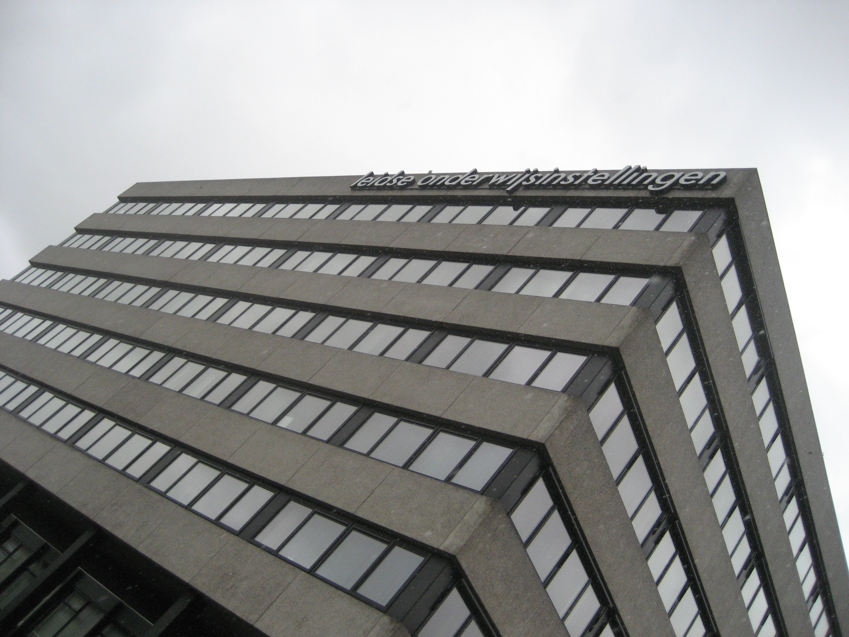 Offices Leidse Onderwijsinstellingen (LOI), Leiderdorp (The Netherlands)